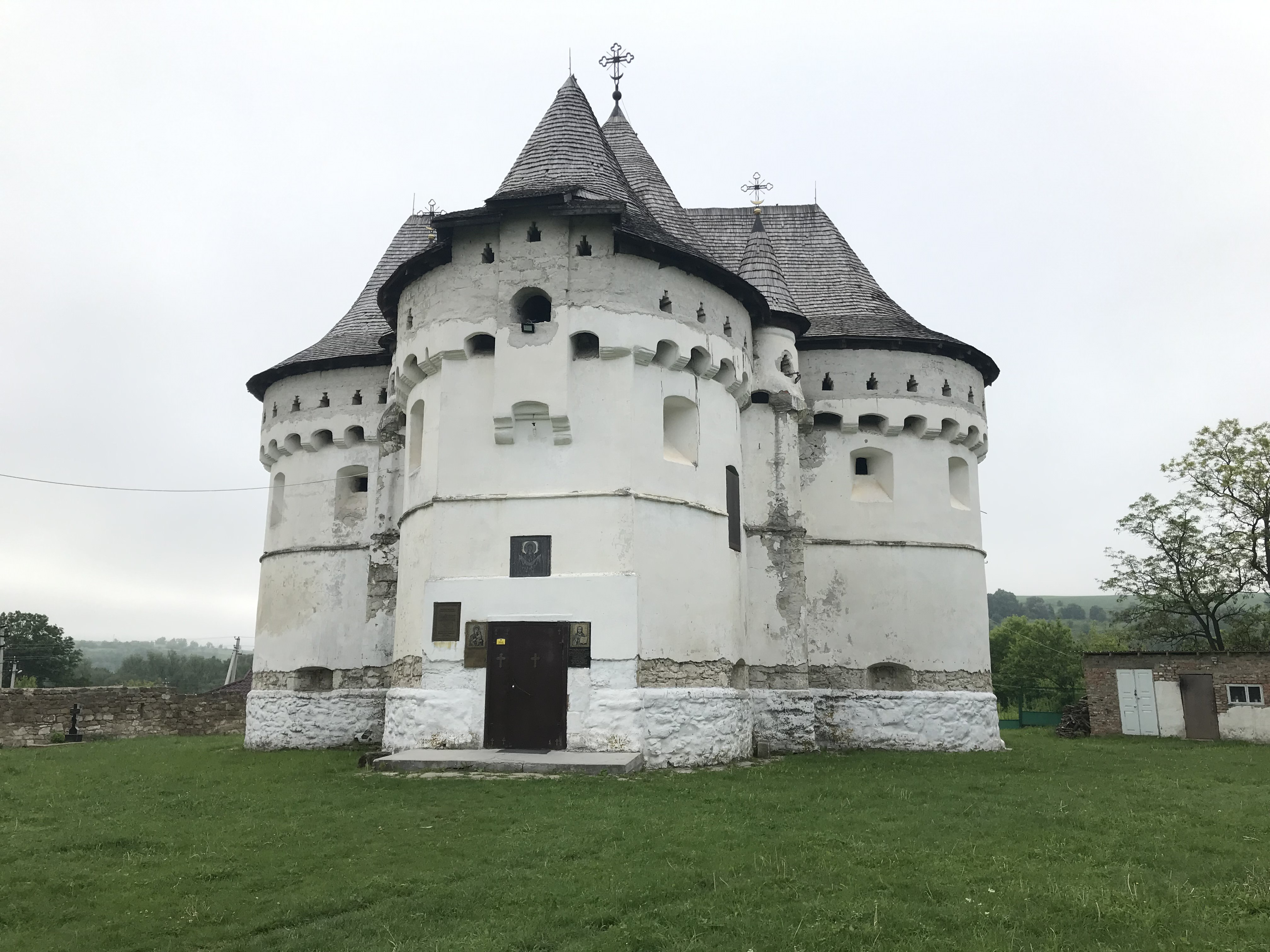 Church of the Protection of the Theotokos, Sutkivci.